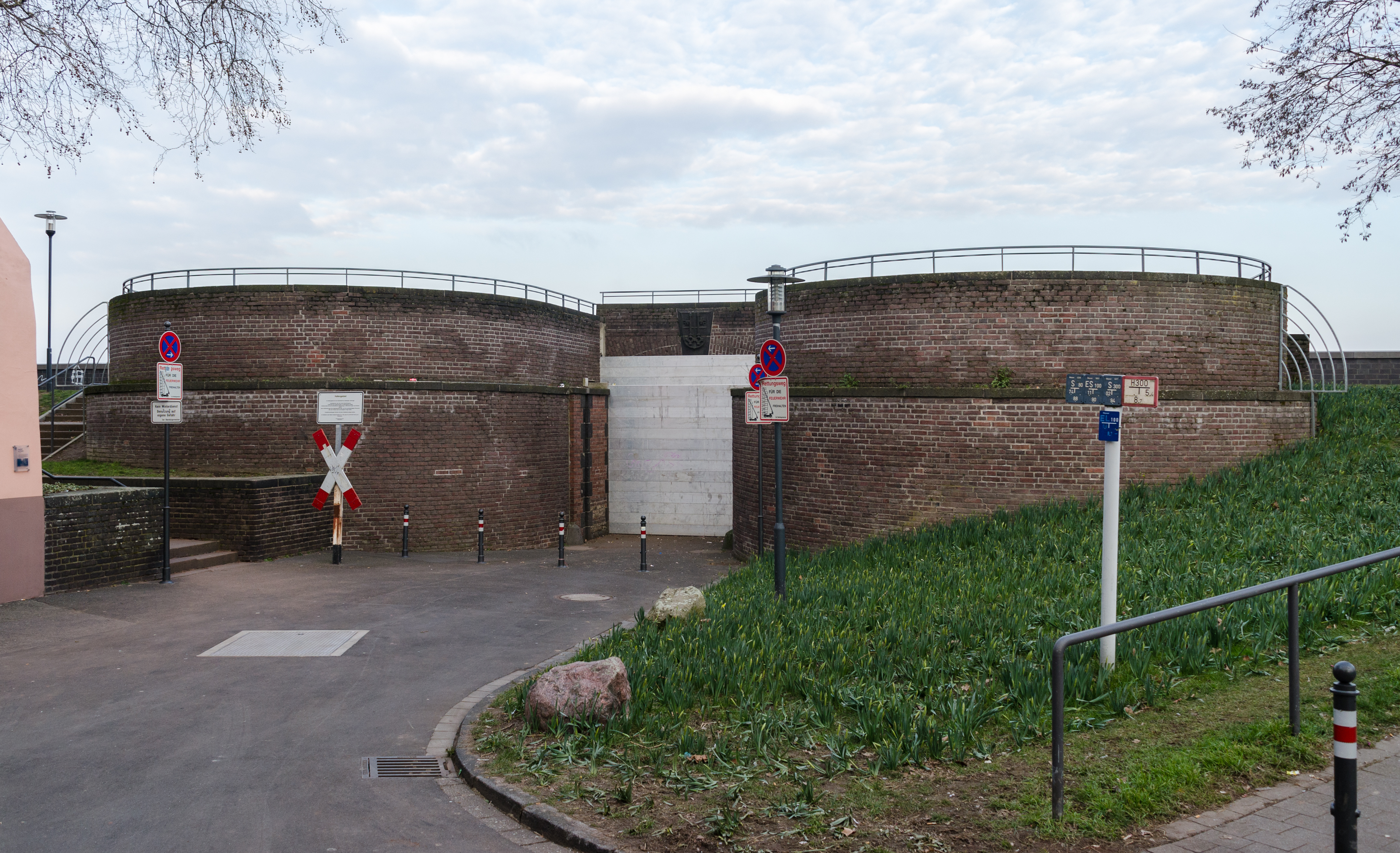 Krefeld (North Rhine-Westphalia, Germany) – district Uerdingen – Rhine Gate, closed flood protection barrier (city side)